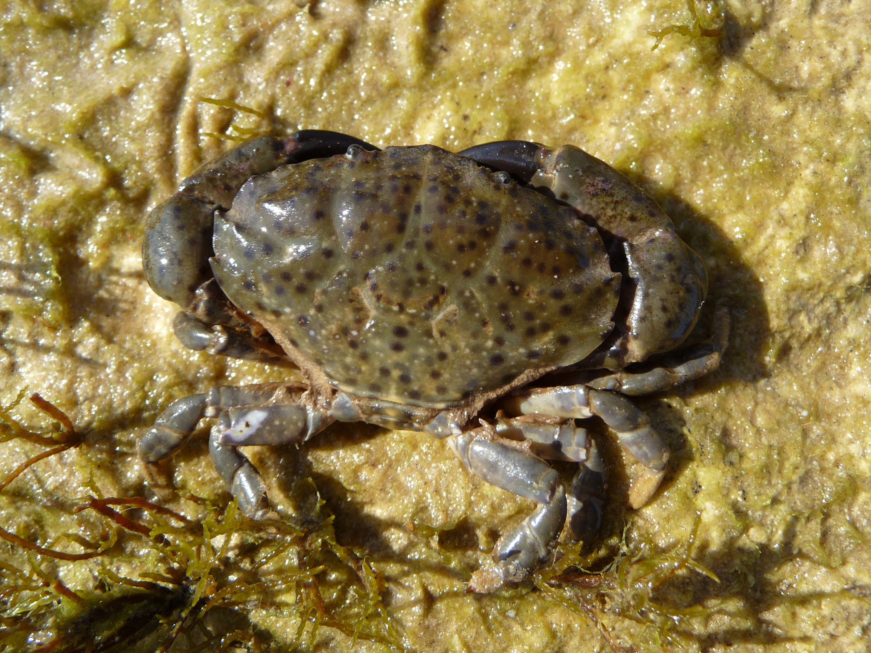 Jaguar round crab Xantho poressa. The Black sea.